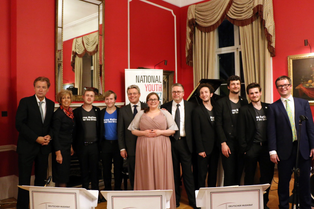 British National Youth Jazz Orchestra performing with German Bundesjazzorchester at Ambassador Ammon's Residence